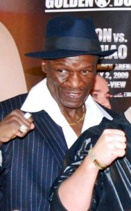 Floyd Mayweather, Sr. at the Trafford Centre.